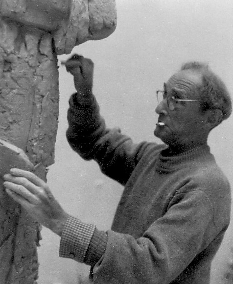 With permission by the legal sucessor Mark Lammert.